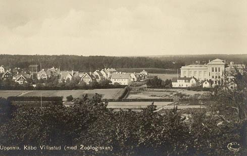 Buildings in Kåbo, Uppsala, Sweden.